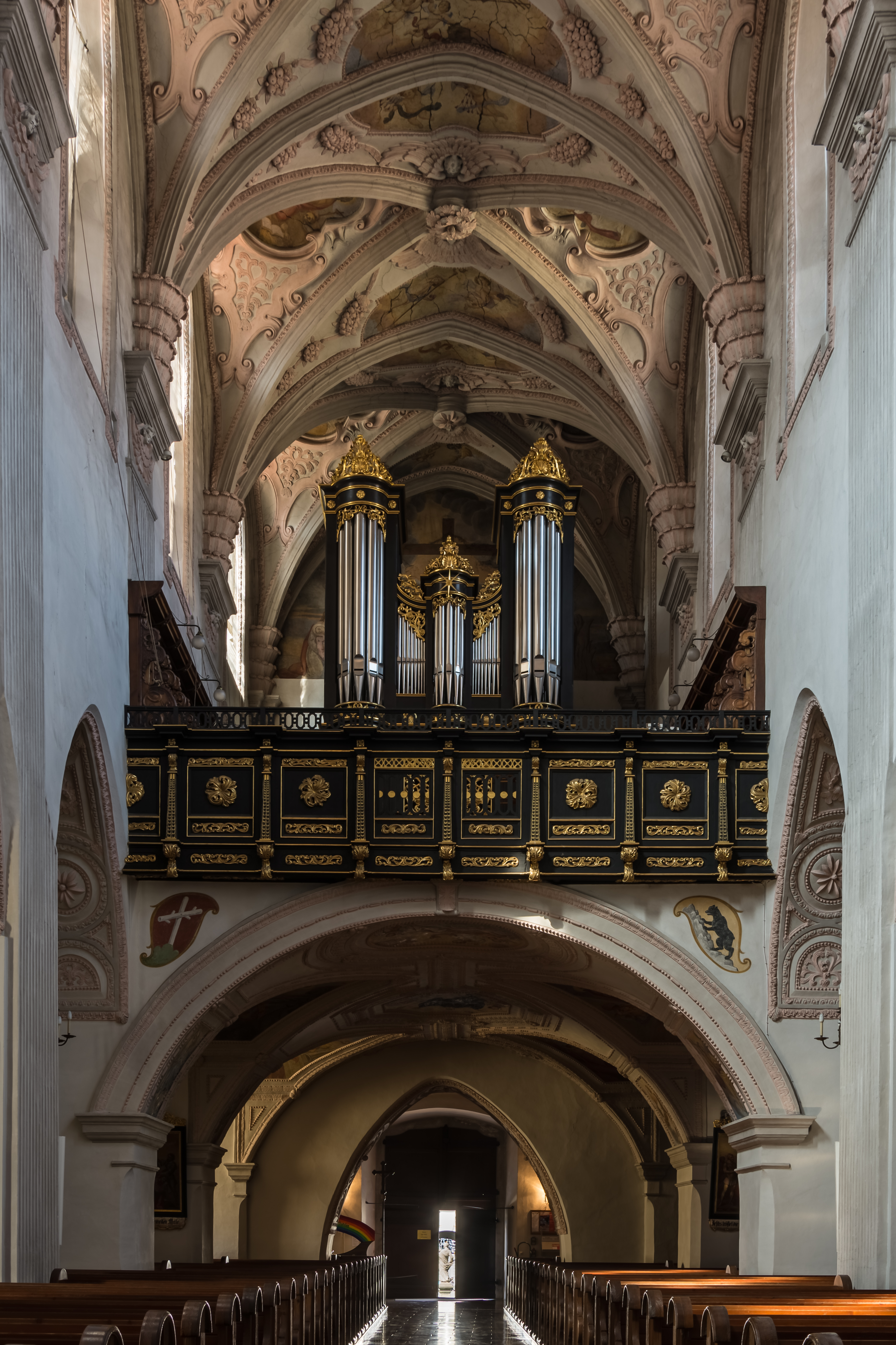 Organ of Seitenstetten Abbey Church, Lower Austria. Baroque case of the organ by Leopold Freundt 1688.